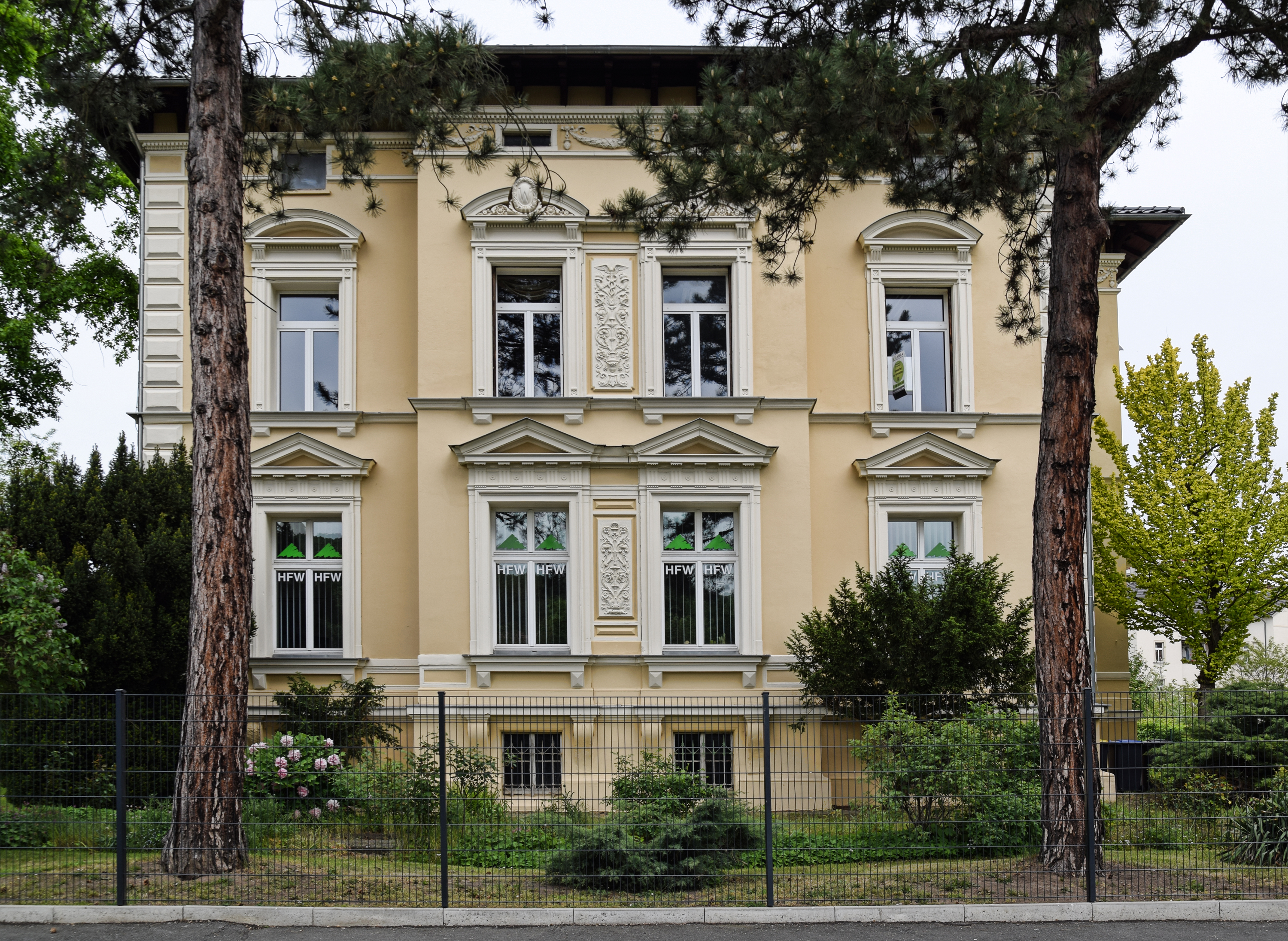 Villa at Hainstraße 22 in Gera, Germany; built c. 1880 by architect Max Pommer